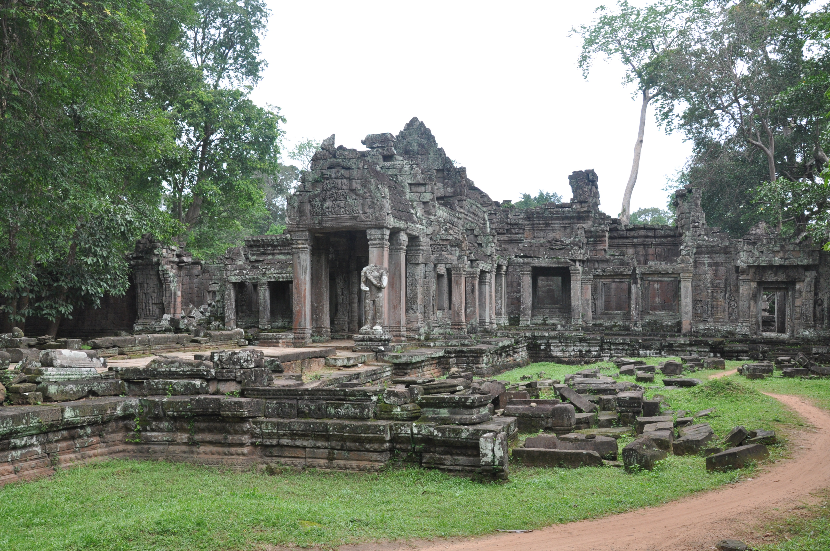 Entrance of Preah Khan central temple. Ankor, Cambodia